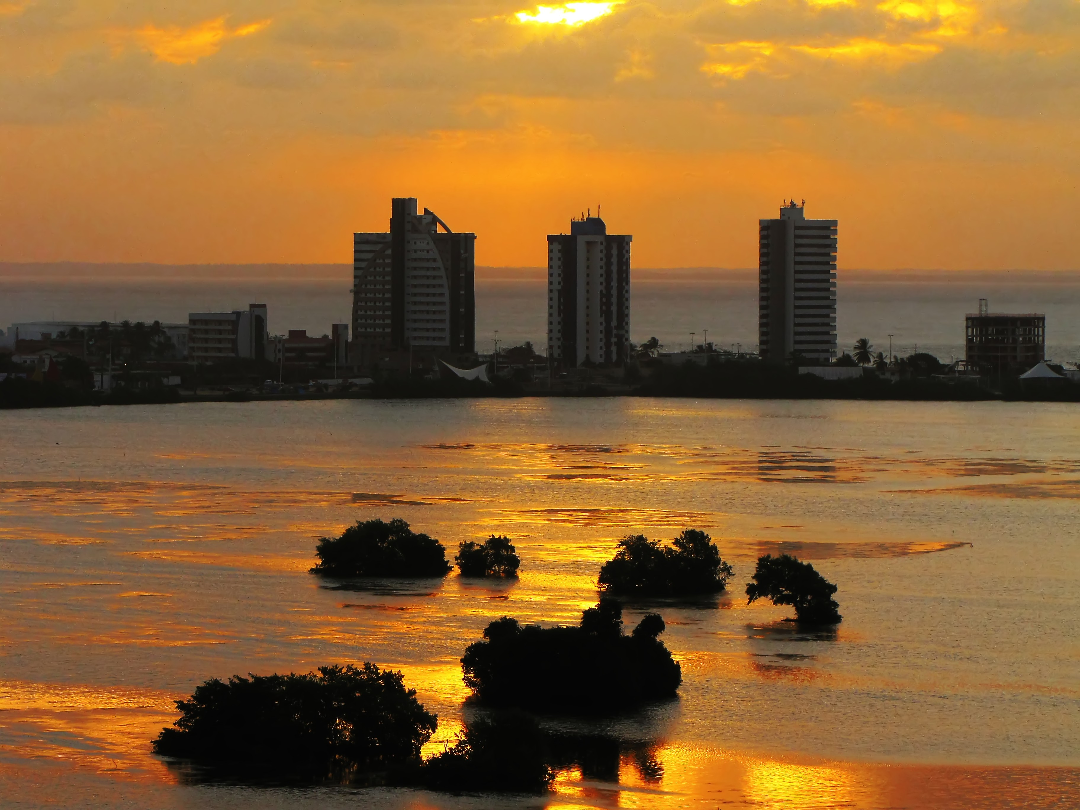 Fim de tarde na Lagoa da Jansen. Ao fundo a Baía de São Marcos. Evening at Lagoa da Jansen. At the bottom of the Bay of St. Mark.